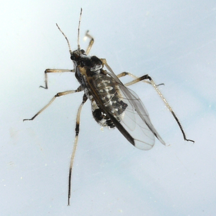 Longistigma caryae - Giant Bark Aphid - largest aphid in North America. Cross Plains, WI, USA